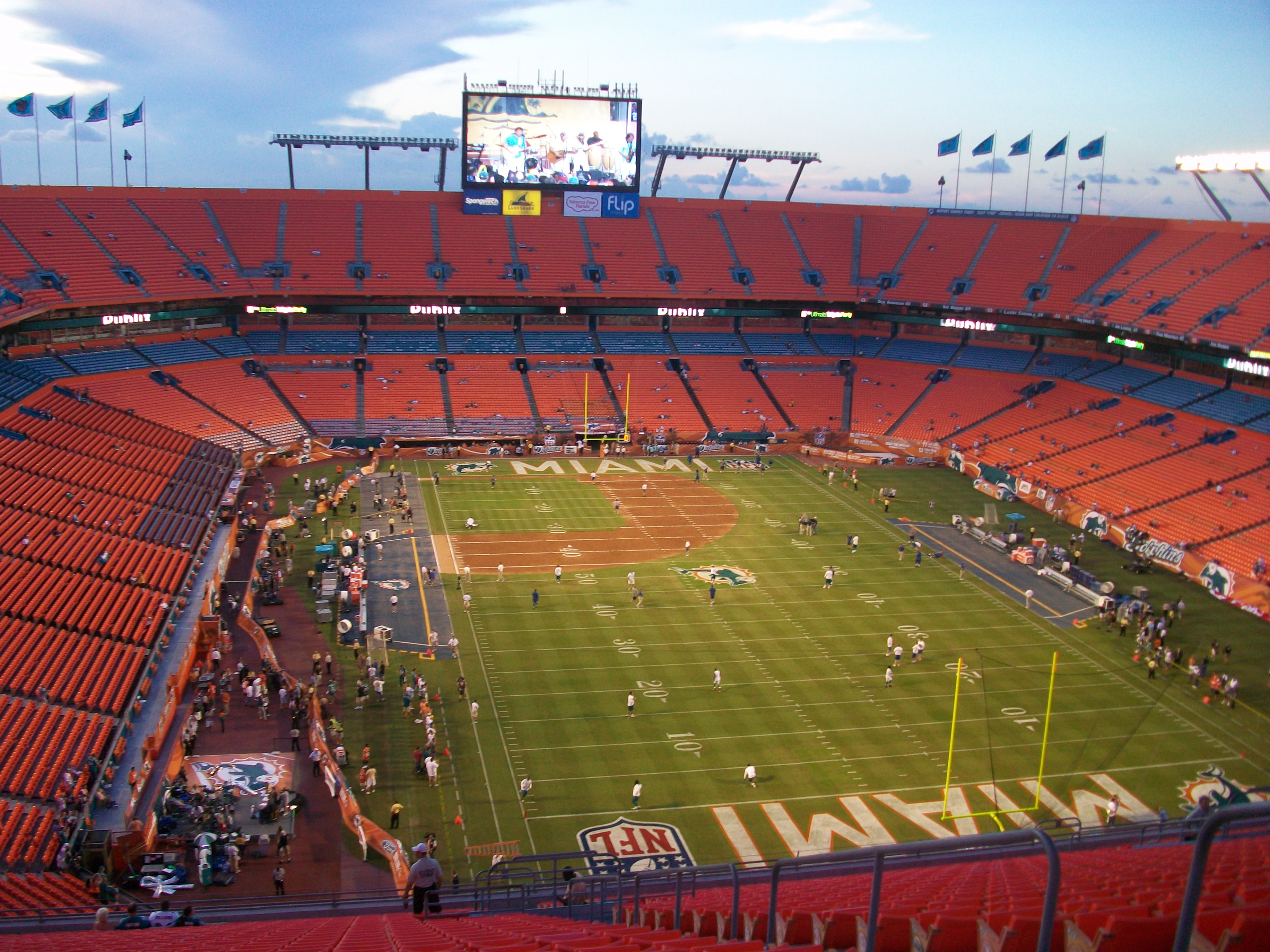 The interior of LandShark Stadium. Starting in August lasting through October, the field is juggled between three sports teams.